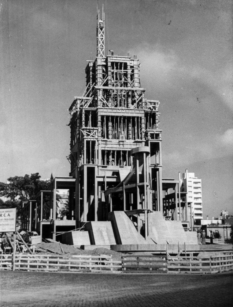 Building stages of the National Flag Memorial in Rosario, Argentina